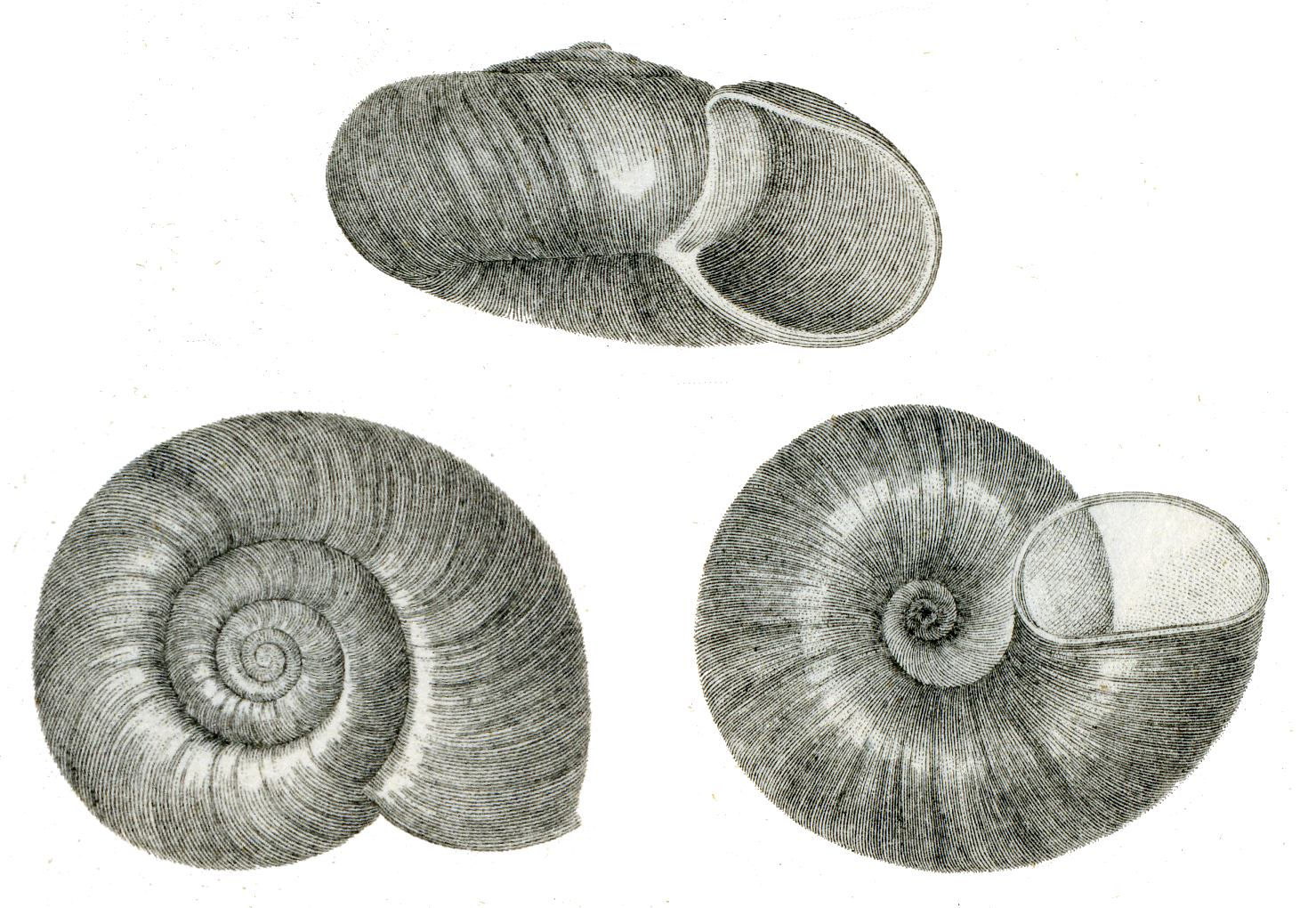 the land snail, Haplotrema vancouverensis